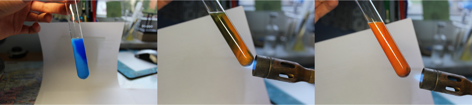 Trommer's test for glucose.